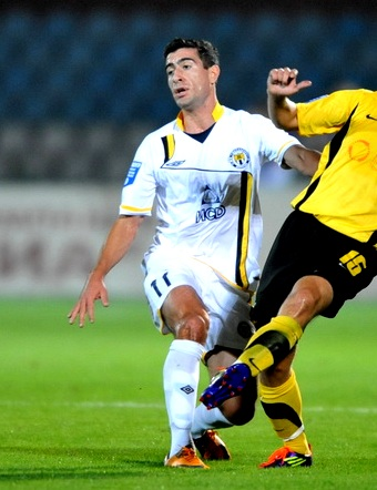 Gevorg Ghazaryan is an Armenian football player